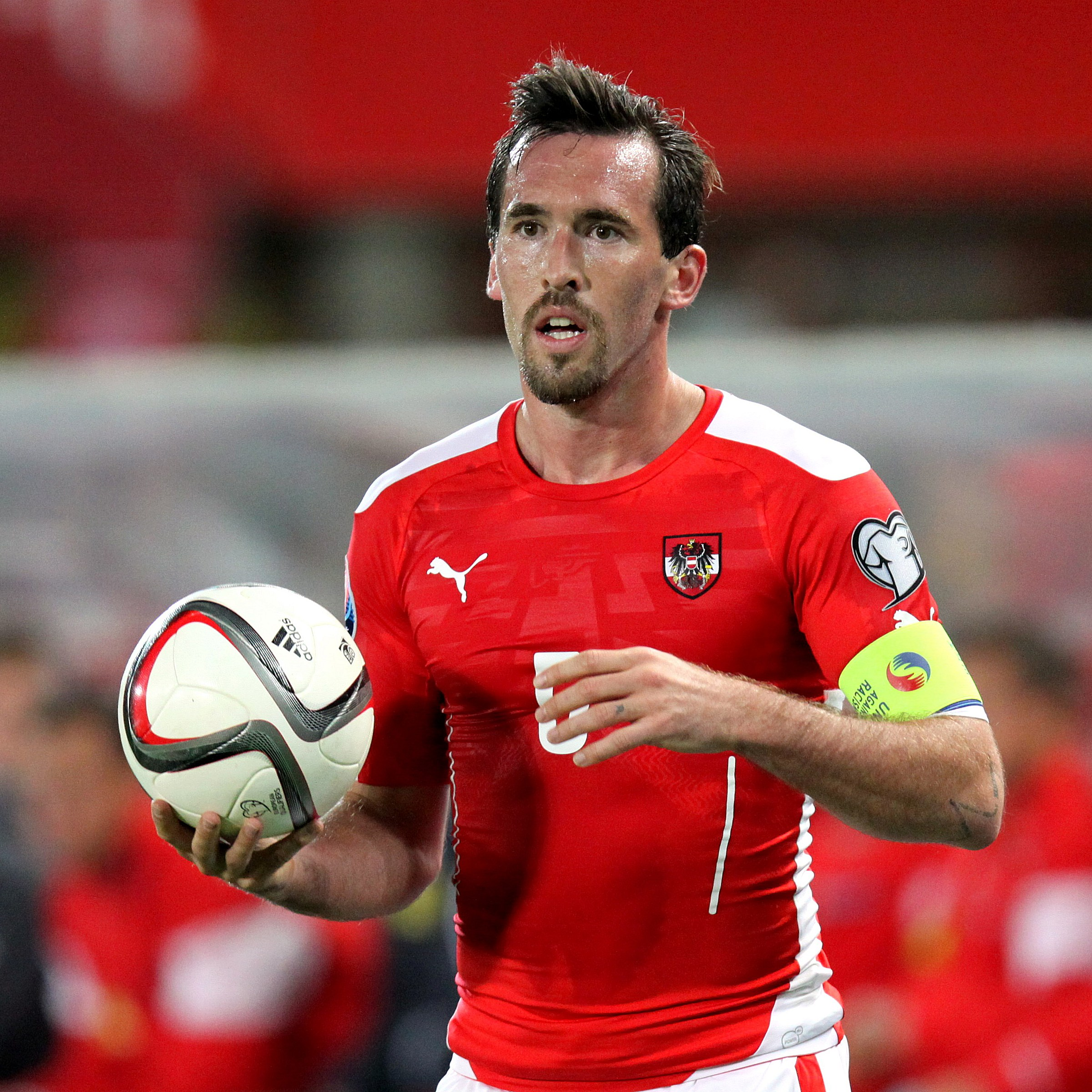 UEFA Euro 2016 qualifying, Group G – Austria national football team (red shirts) vs. Moldova national football team (blue shirts) on 2015-09-05 in Ernst-Happel-Stadion, Vienna: The photo shows Christian Fuchs